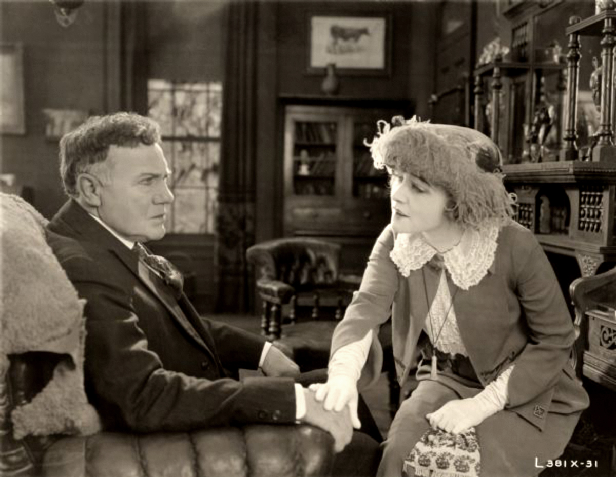 Charles K. French and Ethel Clayton in a scene still for the American drama film Beyond (1921).